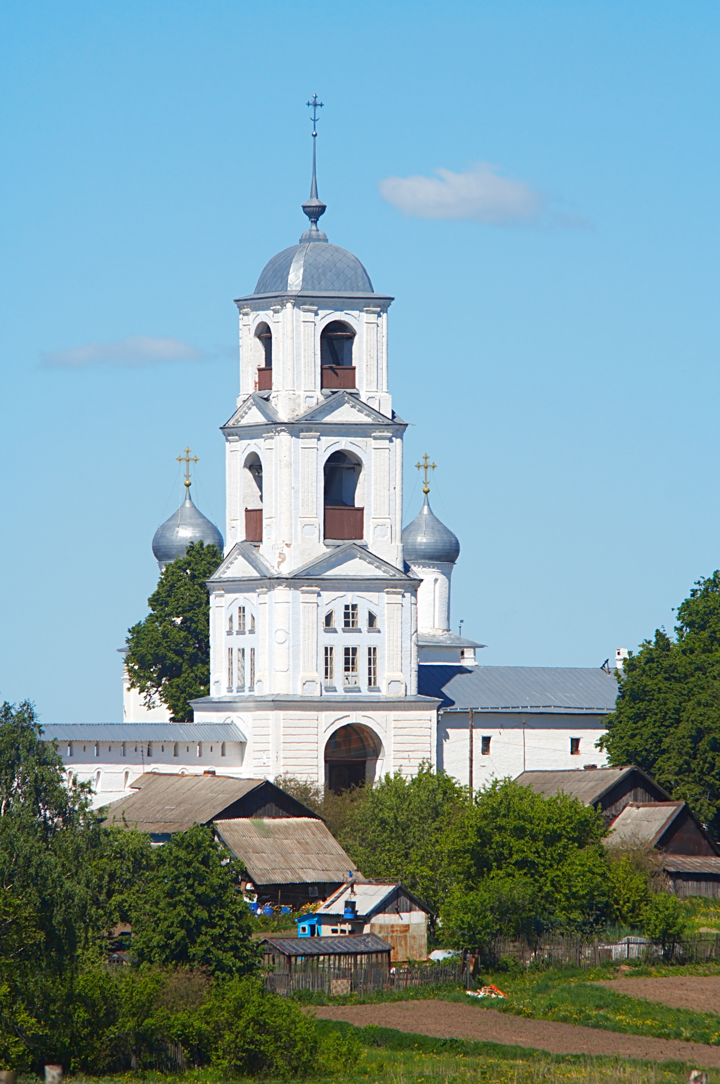 Nikita monastery in Pereslavl, the new bell tower